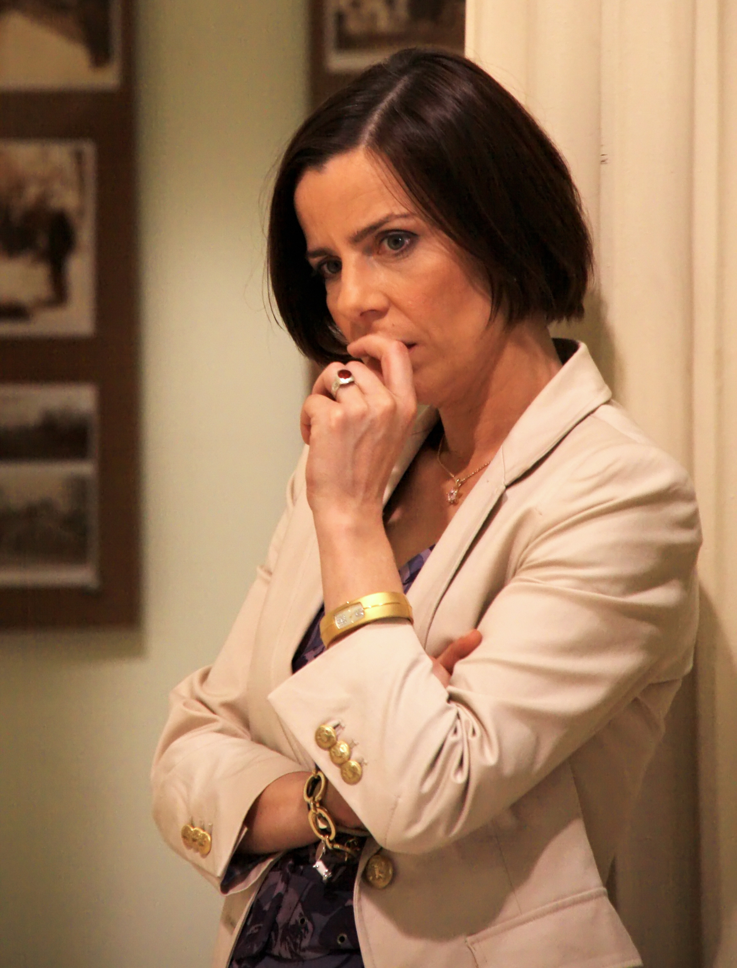 Agata Kulesza - a Polish actress. Busko-Zdrój, 30.06.2010 r.